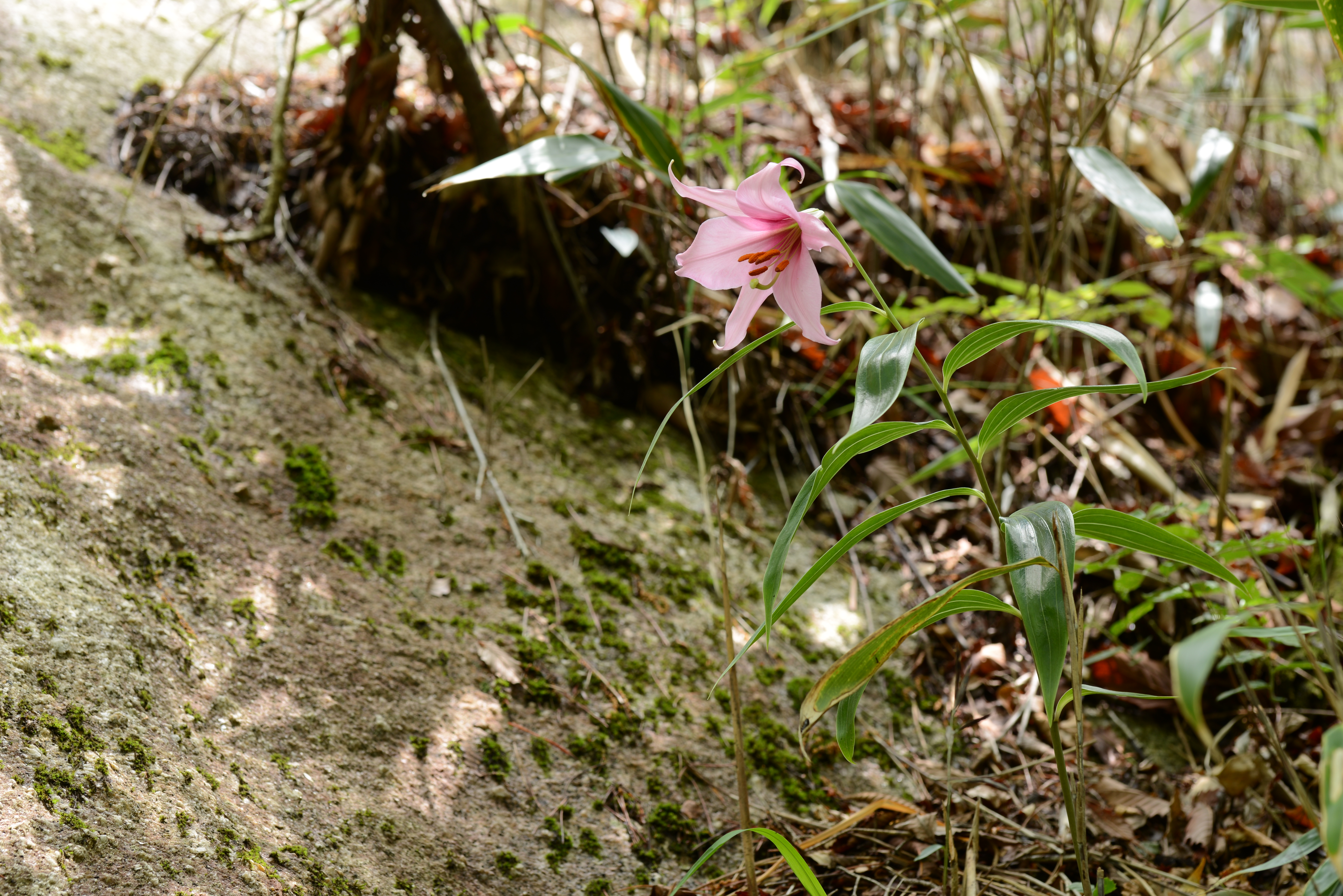 Lilium japonicum 'Hyuga form' in Mount Hokodake